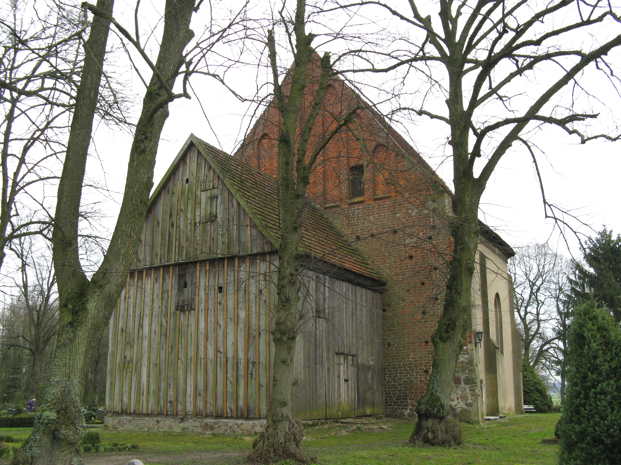 Church in Klinken, district Ludwigslust-Parchim, Mecklenburg-Vorpommern, Germany